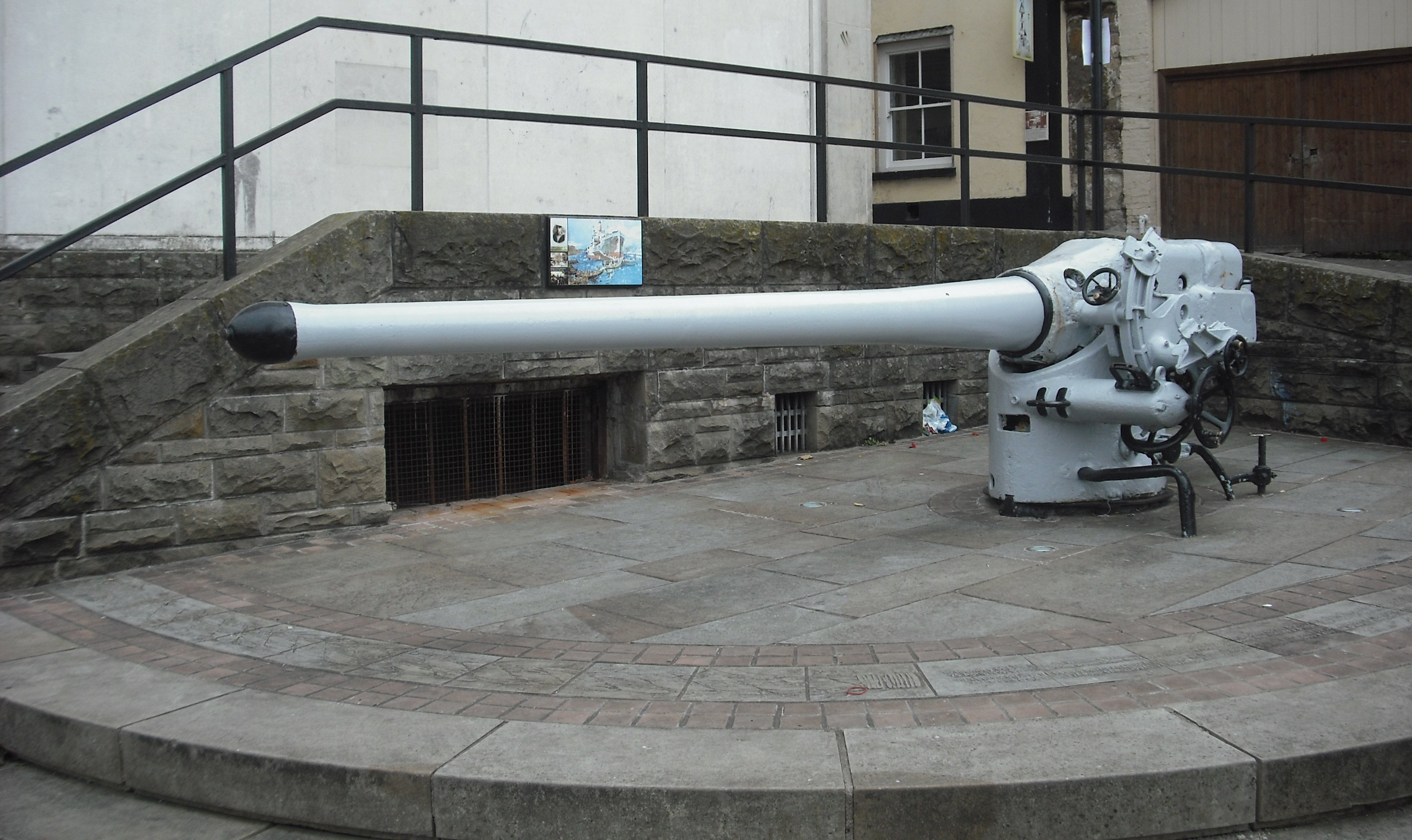 German WWI U-boat 105mm deck gun, from UB-91. Given to Chepstow by King George V after WWI in recognition of the bravery of William Charles Williams RN VC at Gallipoli in 1915. The submarine surrendered in November 1918 at Harwich and was taken around the Welsh ports of Cardiff, Newport, Swansea, Port Talbot and towed to Pembroke Dock, eventually being broke-up in Briton Ferry in 1922.